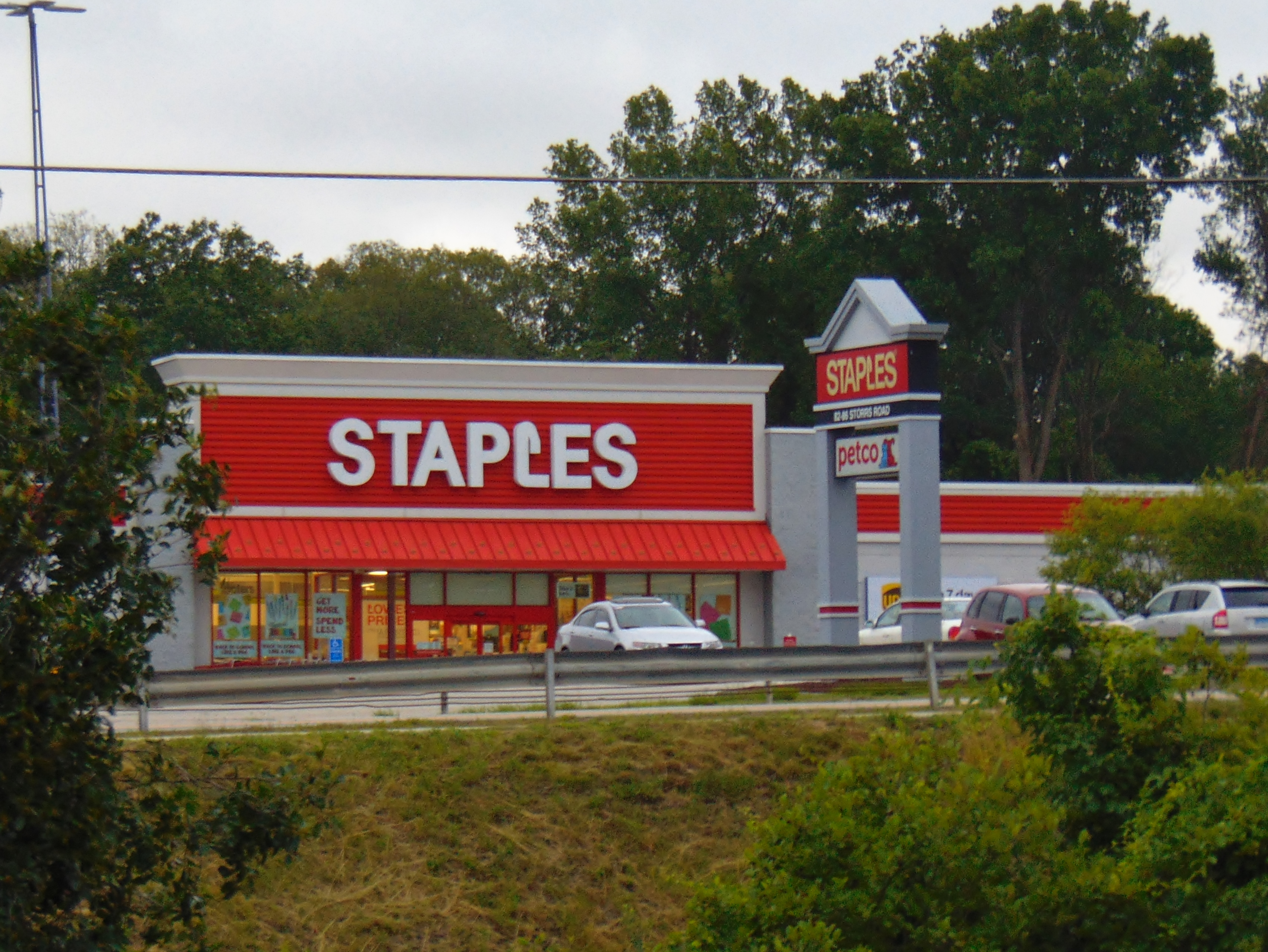 The Staples in Mansfield, Connecticut